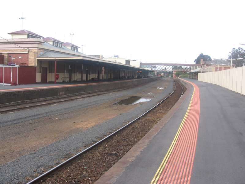 Bendigo railway station, Victoria